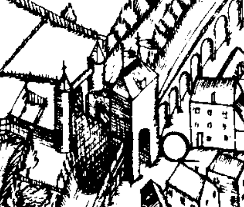 City gate Stapeltor at Duisburg, Germany by Johannes Corputius, 1566